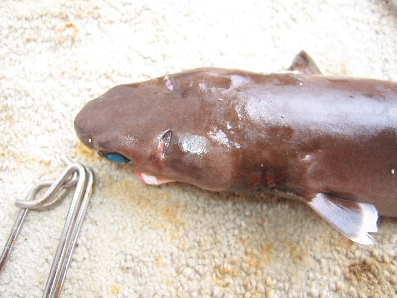 Cookiecutter shark (Isistius brasiliensis) caught off Hawaii